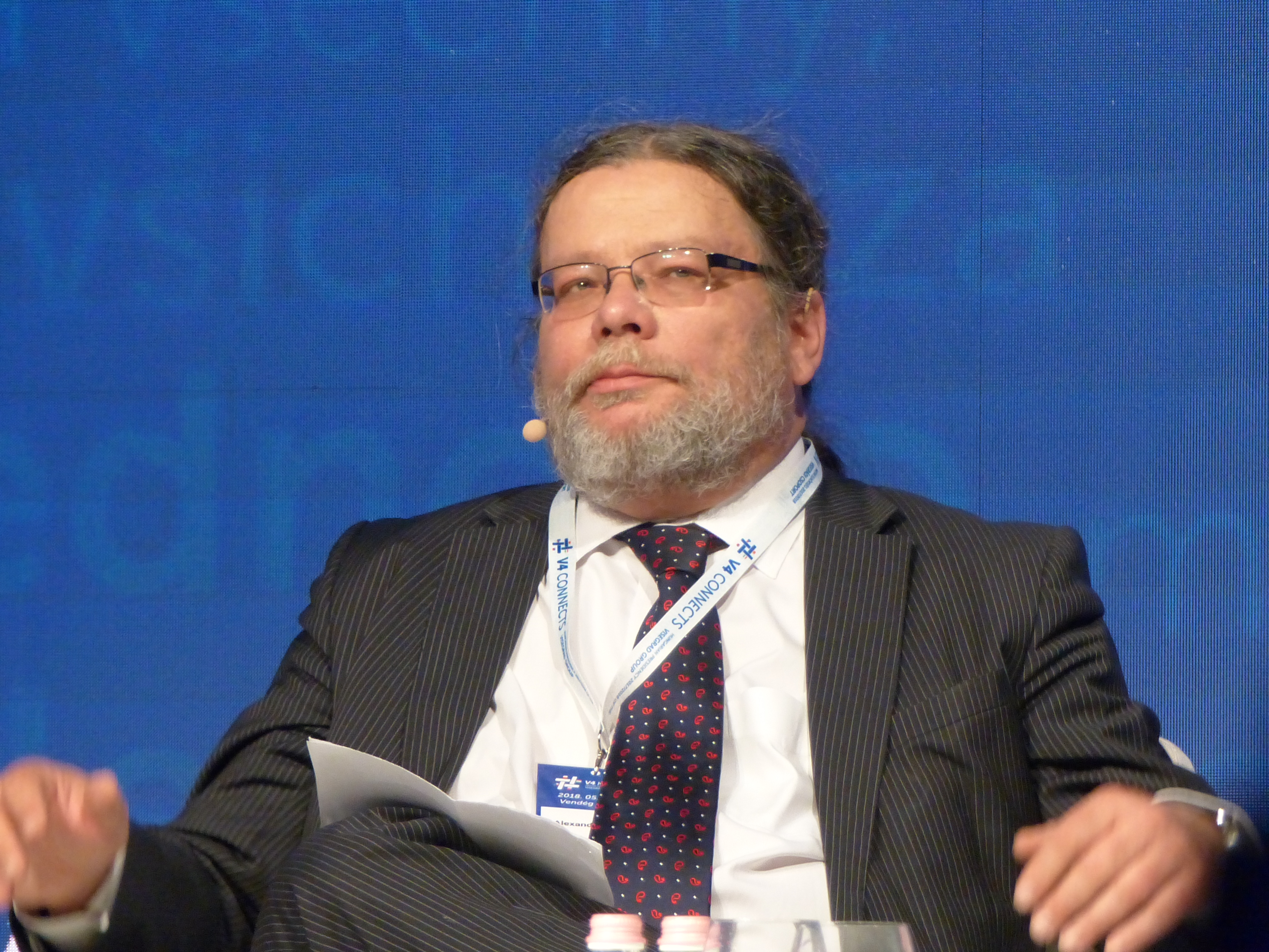 The Future of Europe international conference. Second day, the 24th of May, 2018. Polgári Magyarországért Alapítvány, XXI. Század Intézet, V4 Connects. Várkert Bazár, Budapest, Hungary, Central Europe. III. Panelː GEOPOLITICAL CHALLENGESː III. PANEL - Alexandr Vondra, Mário David, Tomáš Strážay, Schmidt Mária.